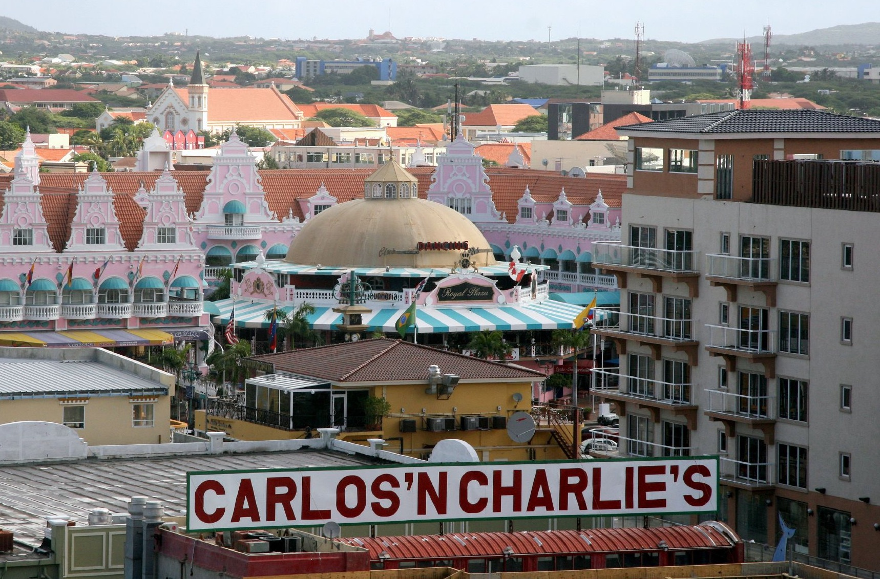 Carlos'n Charlie's (now CLOSED) in downtown Oranjestad, Aruba.